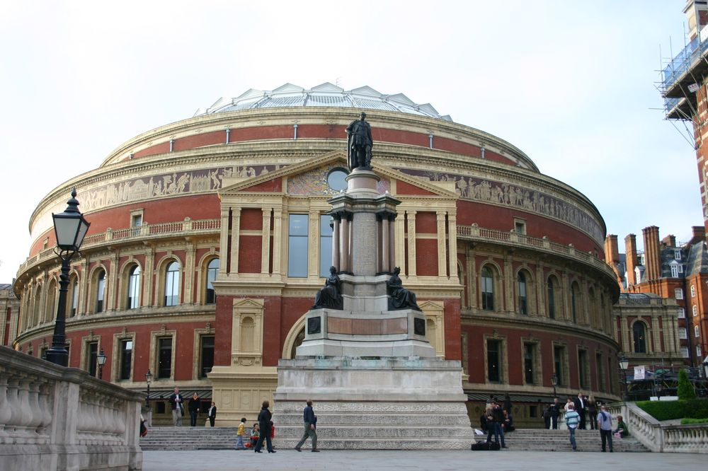 Royal Albert Hall, London. In front of the Hall is the Memorial to the Great Exhibition of 1851. The sculptor was Joseph Durham, and the statues are copper electrotypes done by Elkington & Co. The memorial was moved to this location in 1890. See Memorial to the exhibition. Royal Institute of British Architects. Retrieved on 2011-11-06.